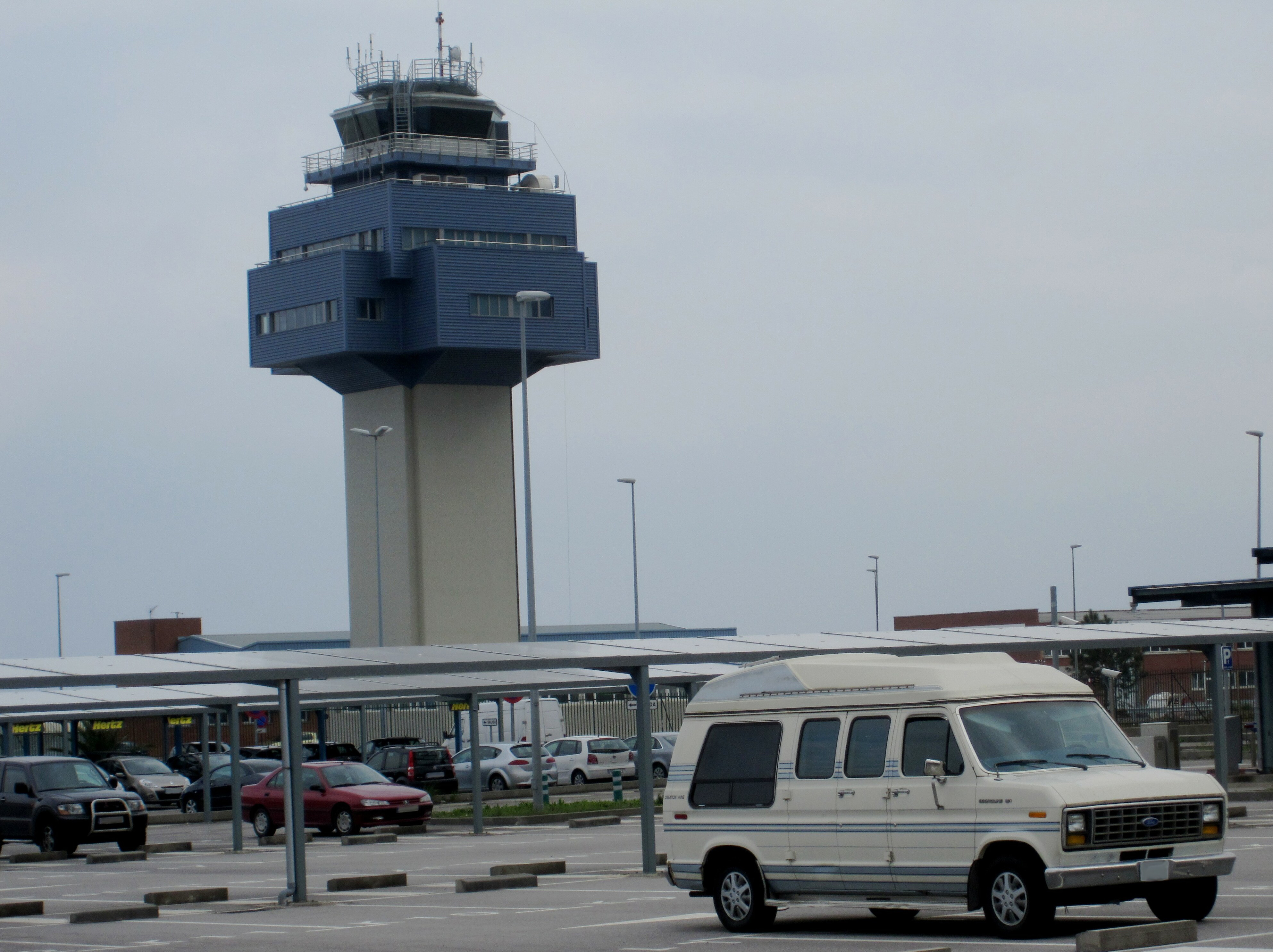 Went one day around the airport and saw this one parked there. When I came back a time after I saw it was still there and thought it was odd. That second time I couldn't photograph it either but I finally could this third time (third time lucky). I guess it's kind of abandoned since it's not normal how it's been sitting there for so long now. It has british registration plates, and the following is about all I've been able to find about it: Date of Liability01 07 2006 Date of First Registration01 10 2004 Year of Manufacture1998 Cylinder Capacity (cc)5000CC CO2 EmissionsNot Available Fuel TypePetrol Export MarkerNot Applicable Vehicle StatusUnlicensed Vehicle ColourWHITE